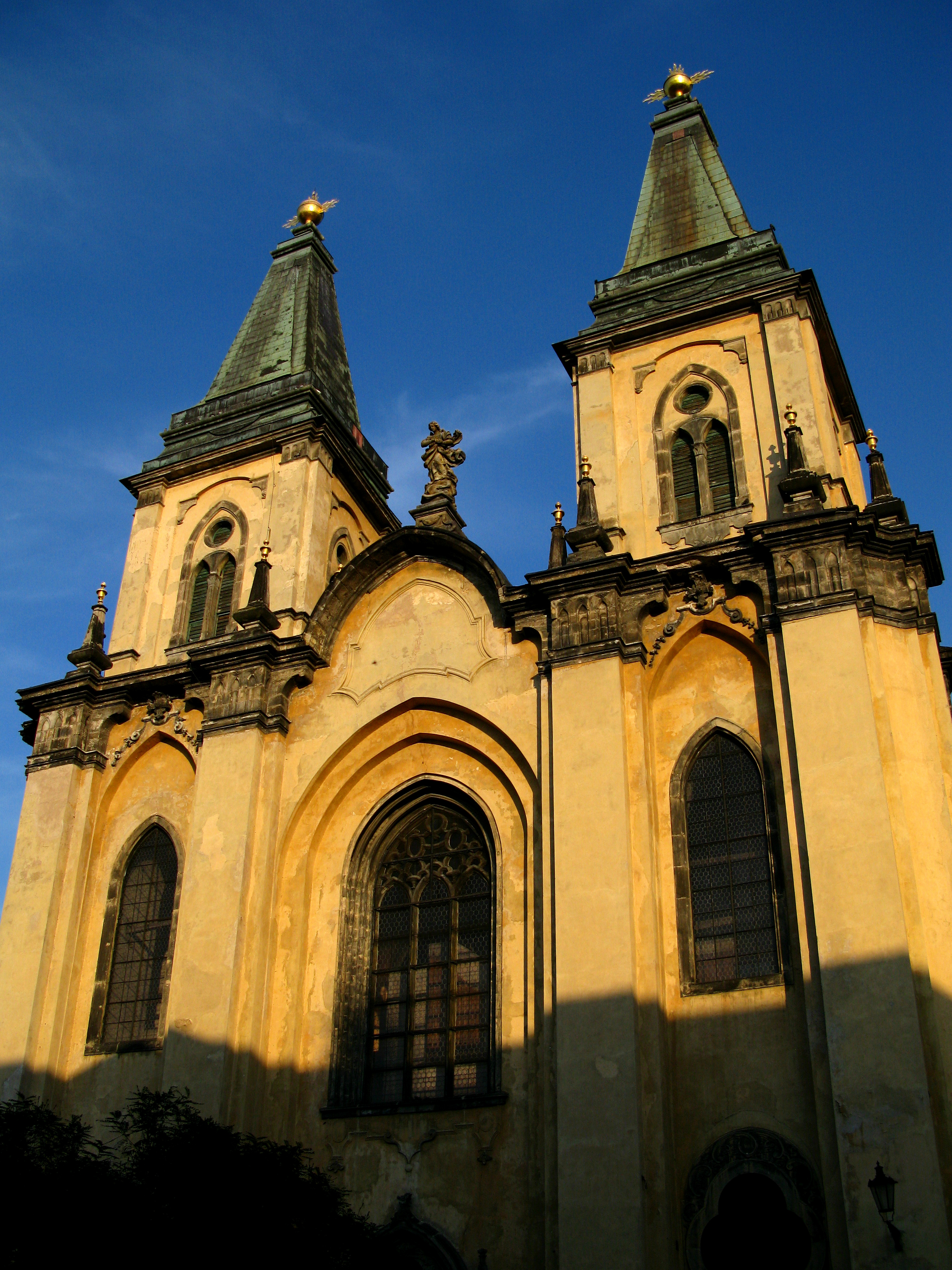 Front of church of the Nativity of the Virgin Mary in Roudnice nad Labem, Czech Republic